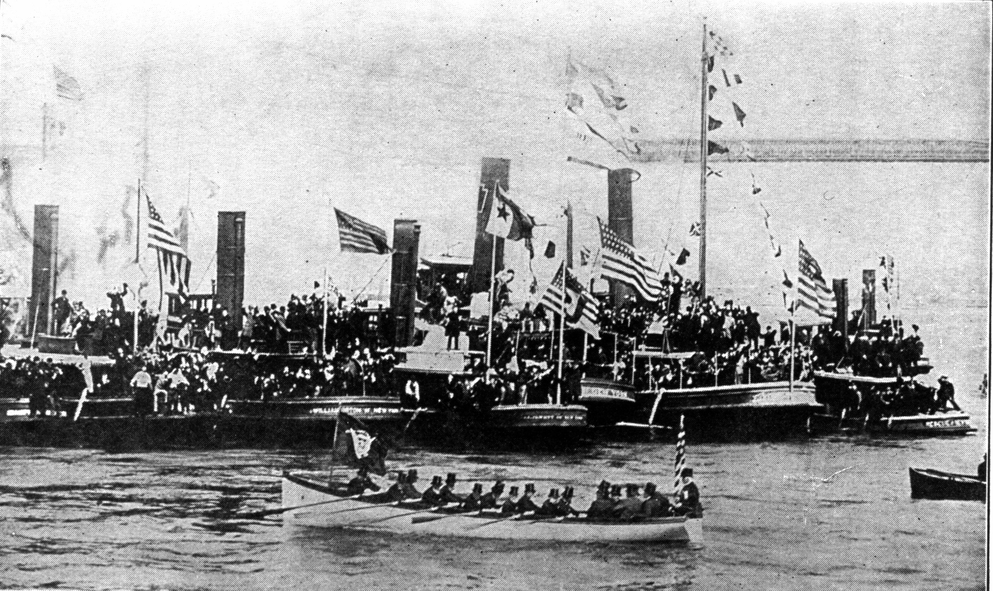 President Harrison being rowed ashore at foot of Wall Street, New York, April 29, 1889.